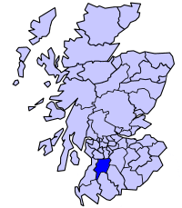 Cumnock and Doon Valley District 1975-1996.